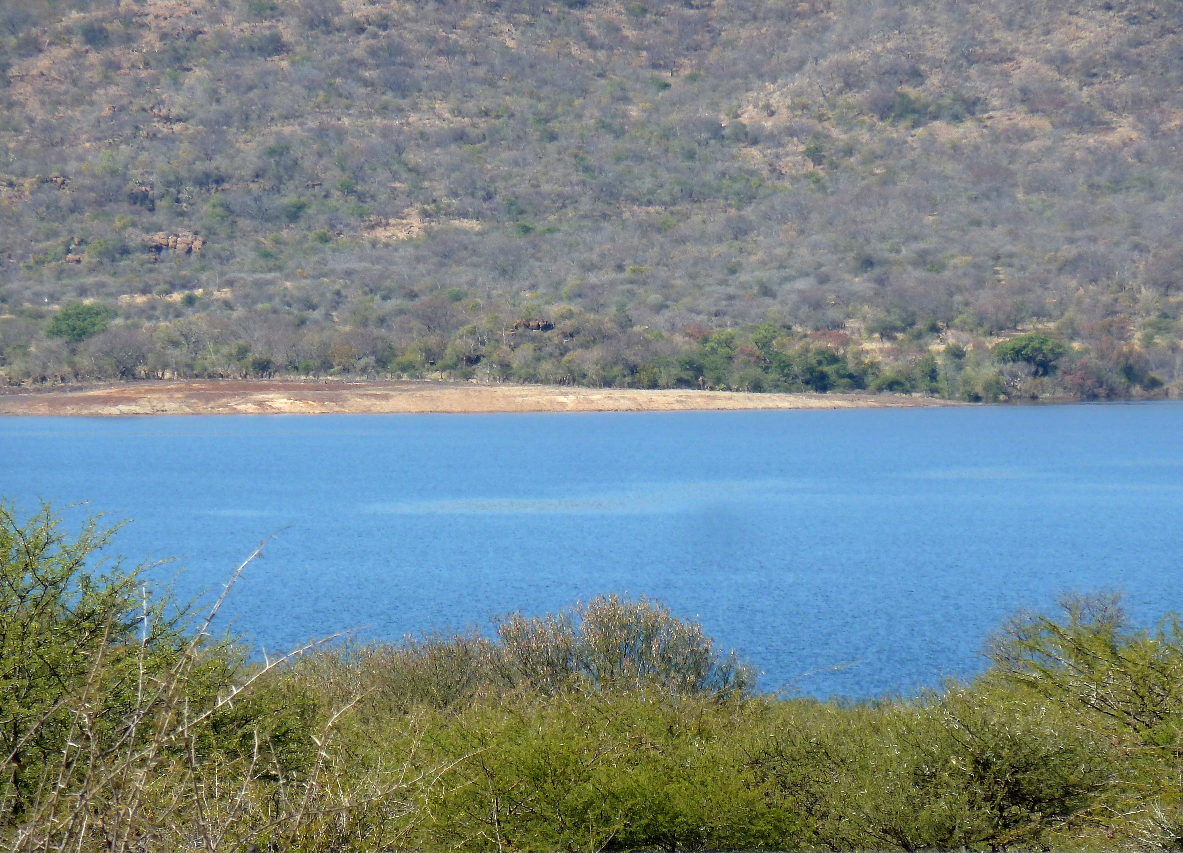 View on a small section of the De Hoop Dam in the Steelpoort River, Limpopo, completed in 2014